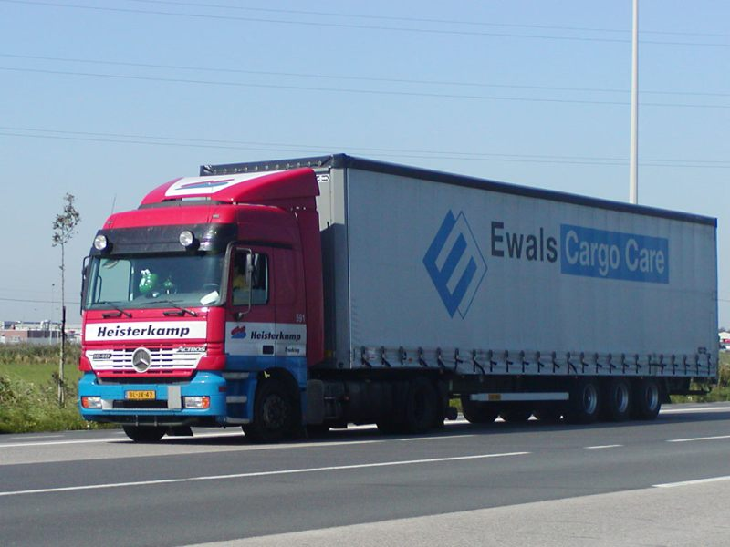 Actros from Ewals Cargo Care